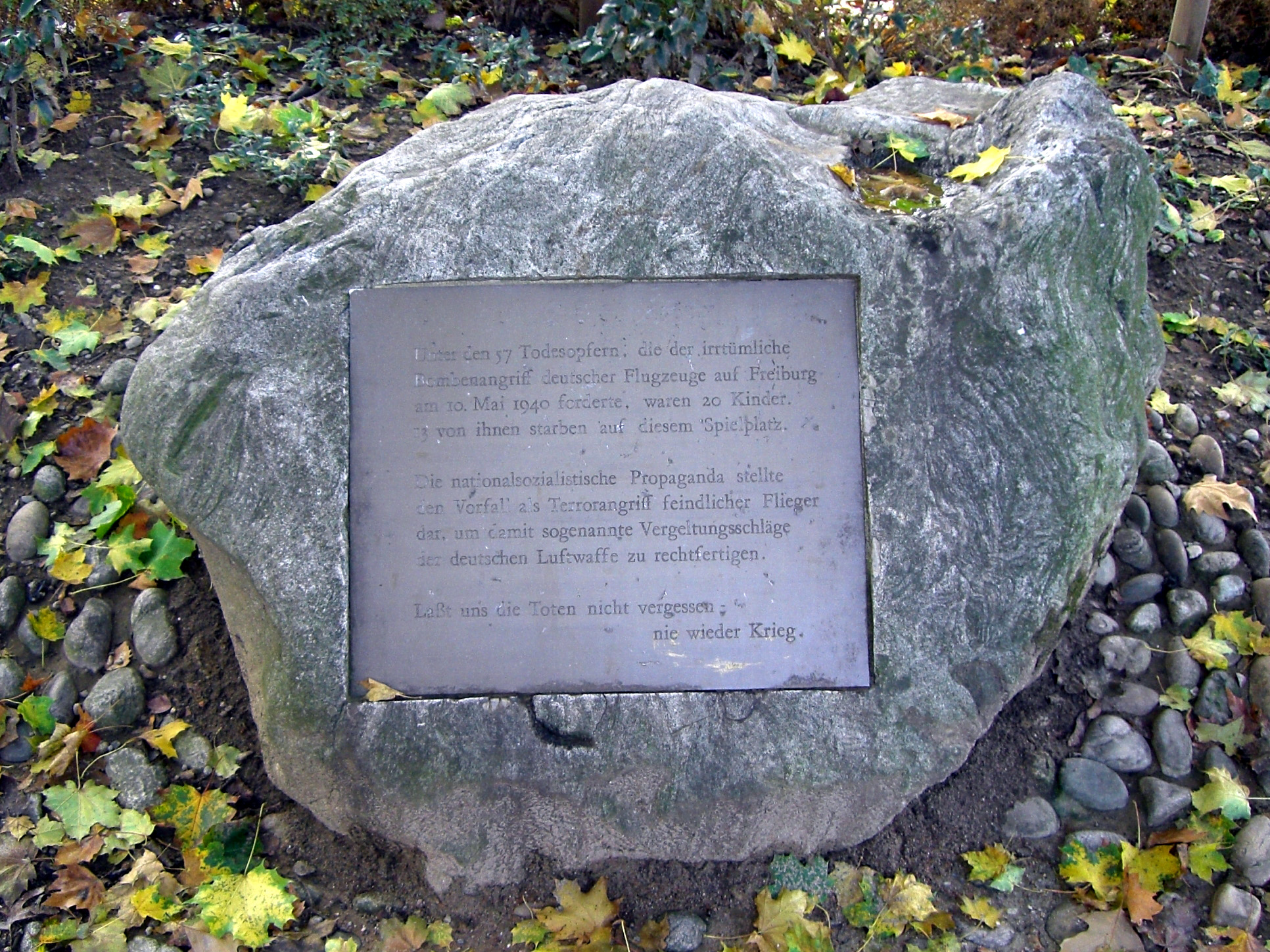 memorial stone Hildaspielplatz